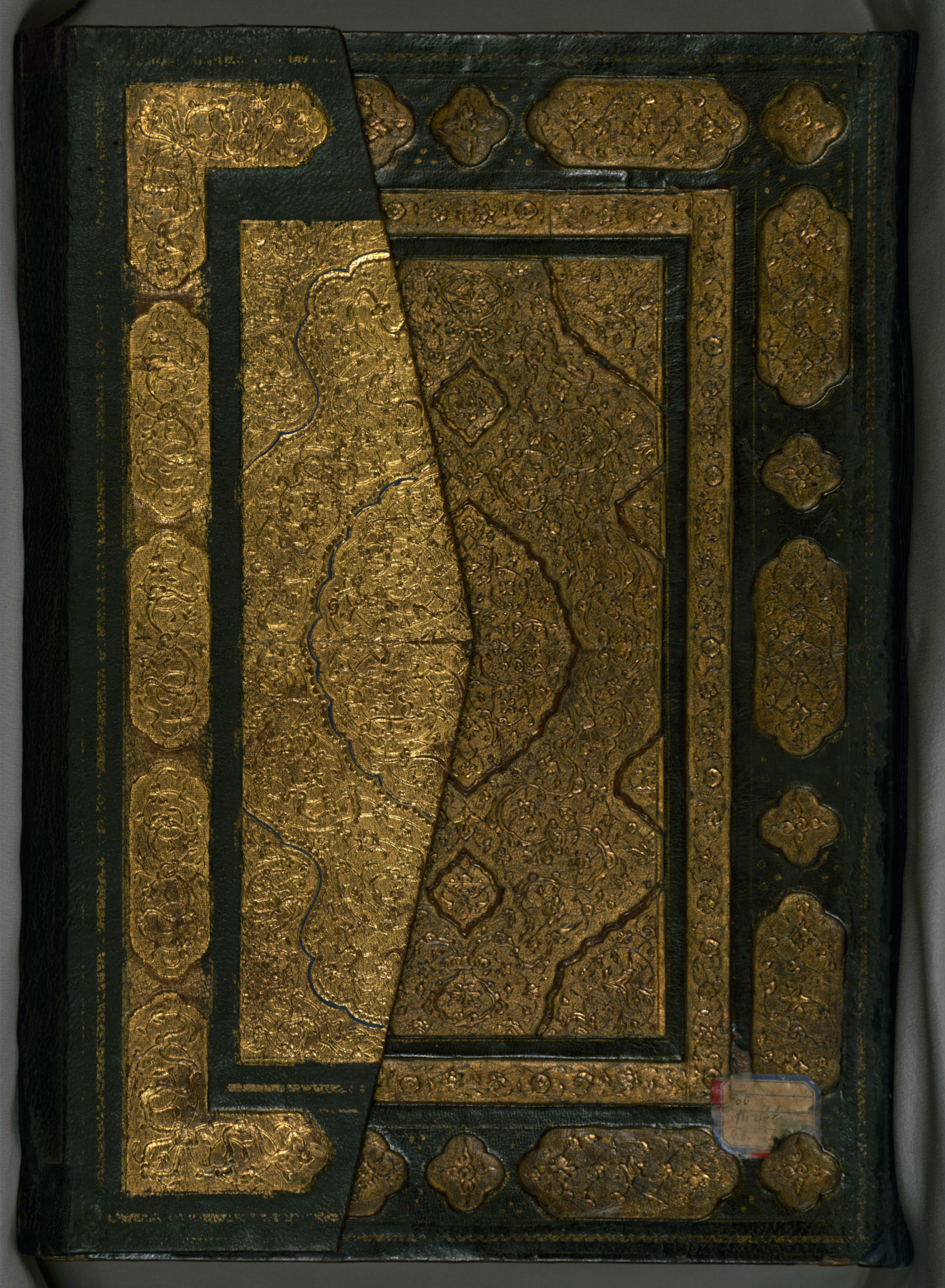 Originally composed in 932 AH/AD 1525 and dedicated to Sultan Süleyman I ("The Magnificent"), this great work by Piri Reis (d. 962 AH/AD 1555) on navigation was later revised and expanded. Walters manuscript W.658, made mostly in the late 11th century AH/AD 17th, is based on the later expanded version and has some 240 exquisitely executed maps and portolan charts. They include a world map (fol. 41a) with the outline of the Americas, as well as maps of coastlines (bays, capes, peninsulas), islands, mountains, and cities of the Mediterranean basin and the Black Sea. The work starts with the description of the coastline of Anatolia and the islands of the Aegean Sea, the Peloponnese peninsula, and the eastern and western coasts of the Adriatic Sea. It then proceeds to describe the western shores of Italy, southern France, Spain, North Africa, Palestine, Israel, Lebanon, Syria, western Anatolia, various islands north of Crete, the Sea of Marmara, Bosporus, and the Black Sea. It ends with a map of the shores of the Caspian Sea (fol. 374a).